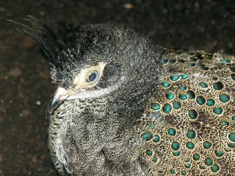 Description: Malayan Peacock Pheasant - Source: own work - Location: Bronx Zoo, New York - Author: self, User:Stavenn